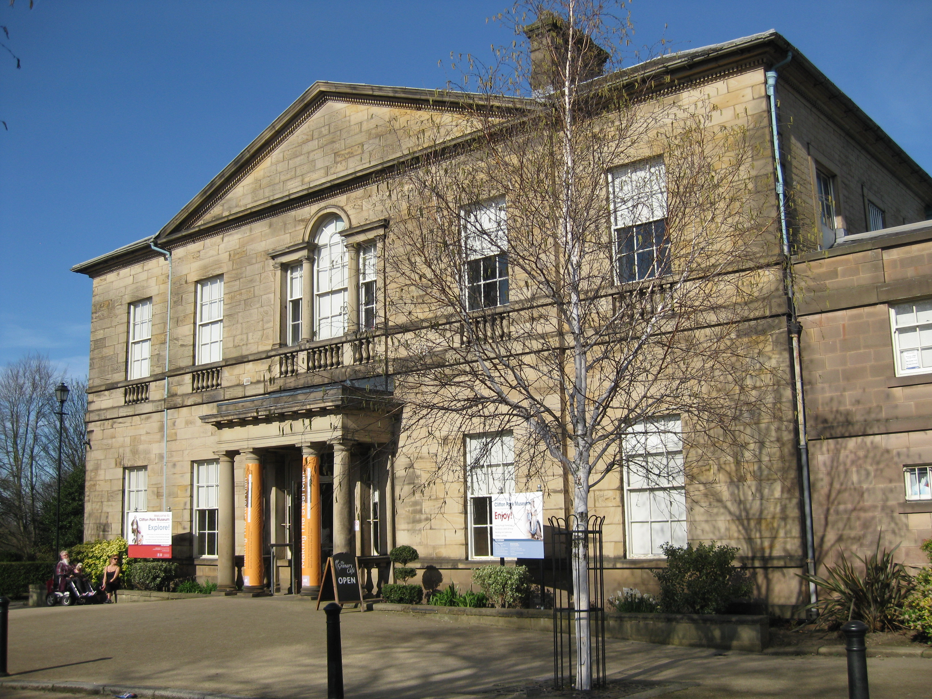 Clifton House, built in 1783, is a Grade II* listed building designed by John Carr of York. Ashlar sandstone, graduated slater oof. 2 storeys, 5 x 6 bays; symmetrical facades. Open stone porch with paired Doric columns